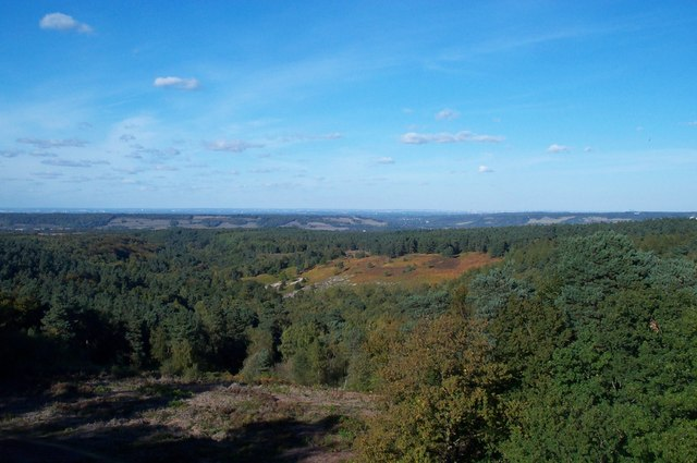 Surrey's landscape. View from Leith Hill Tower looking north across the North Downs towards SW London.